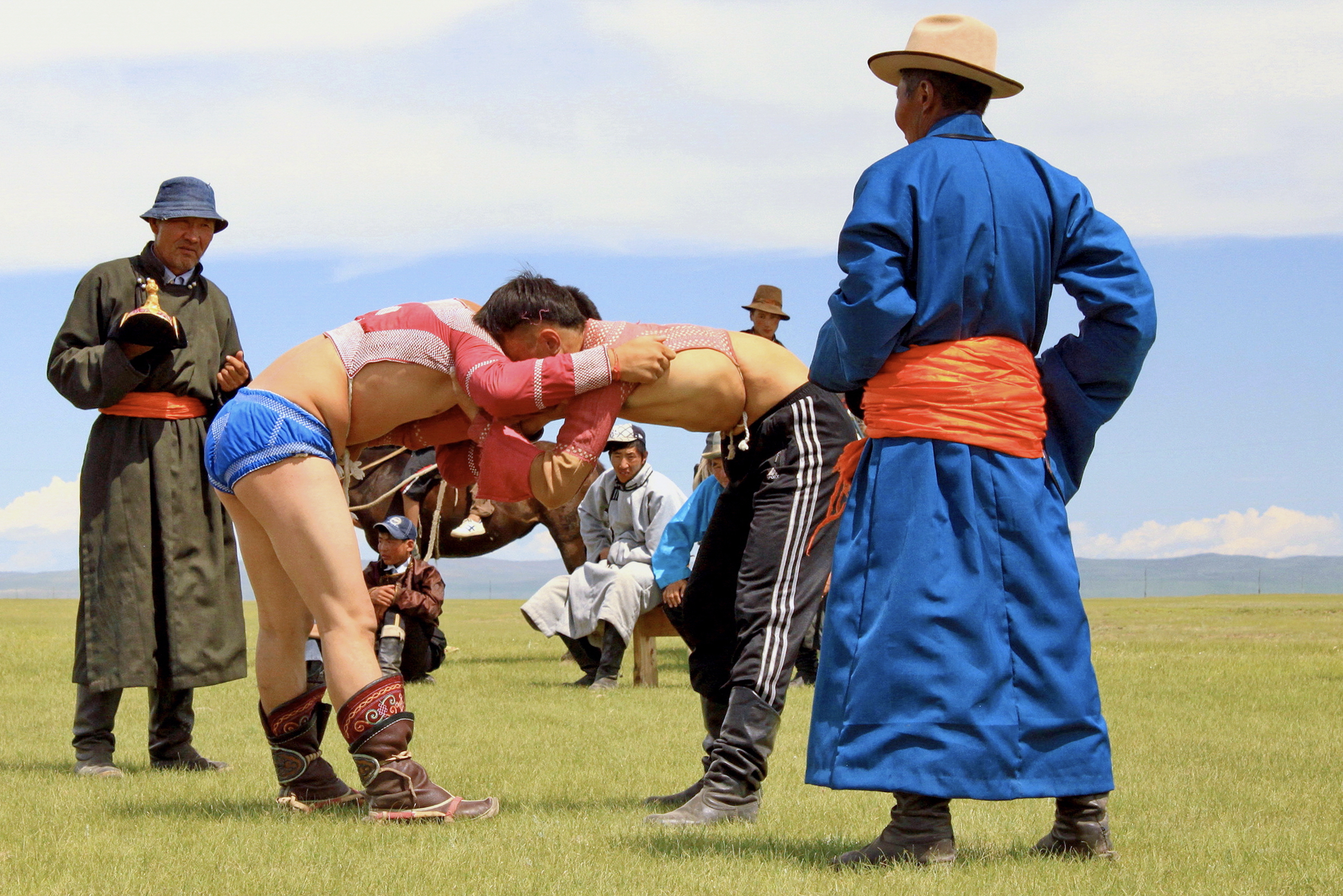 Traditional Mongolian wrestling during the local Naadam festival. Kharkhorin, Övörkhangai Province, Mongolia.